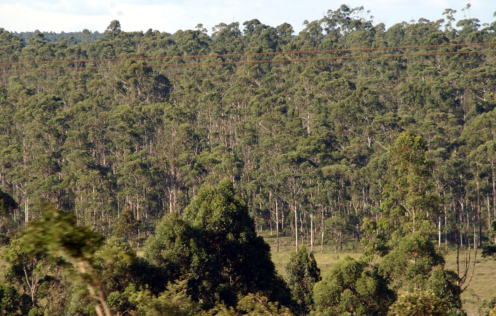 Reforestation in Brazil (eucalyptus)